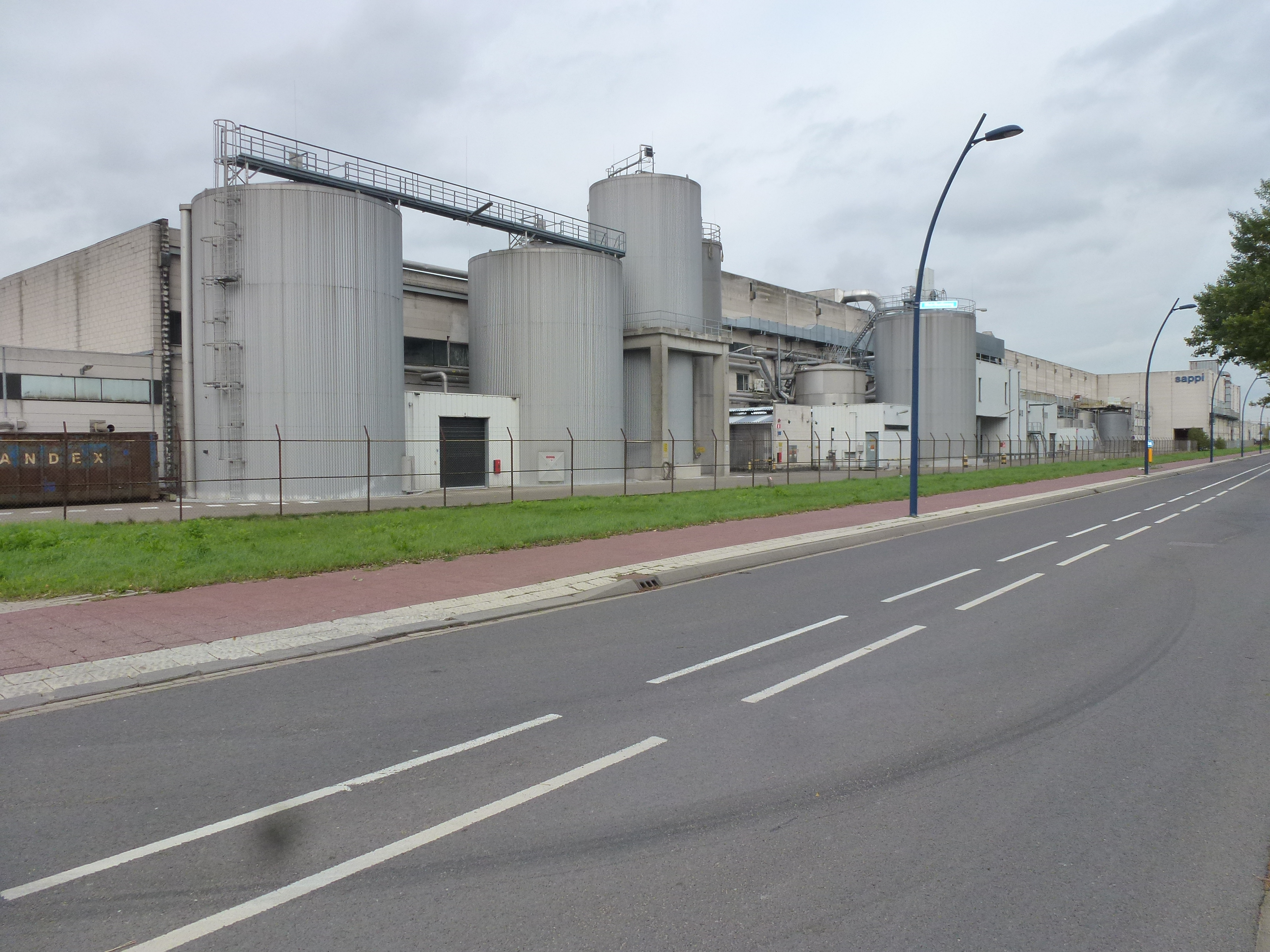 Nijmegen, Sappi papierfabriek, Ambachtsweg